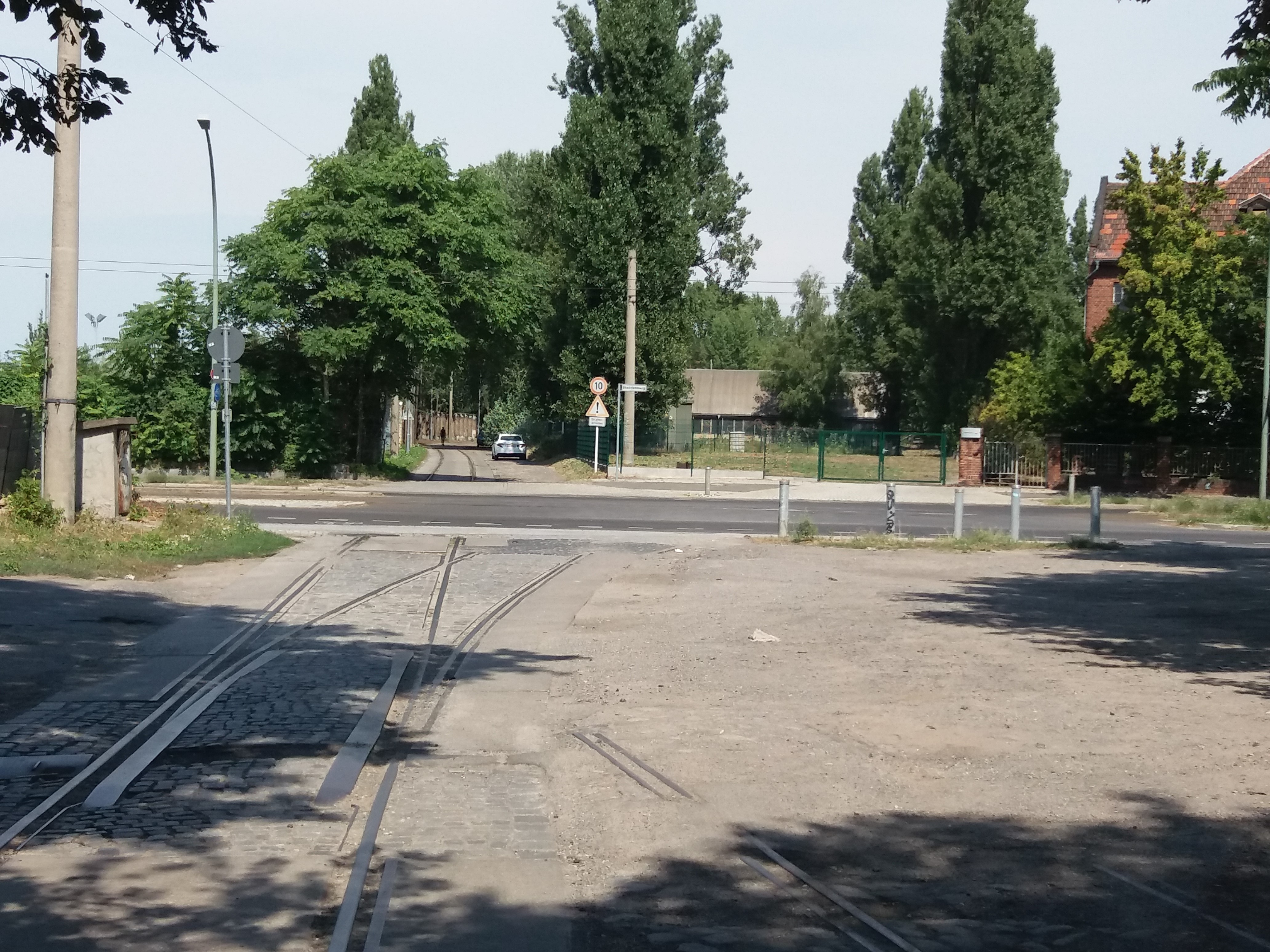 Remains of cargo railway Oberschoeneweide in Berlin, crossing Blockdammweg/Hoenower Wiesenweg